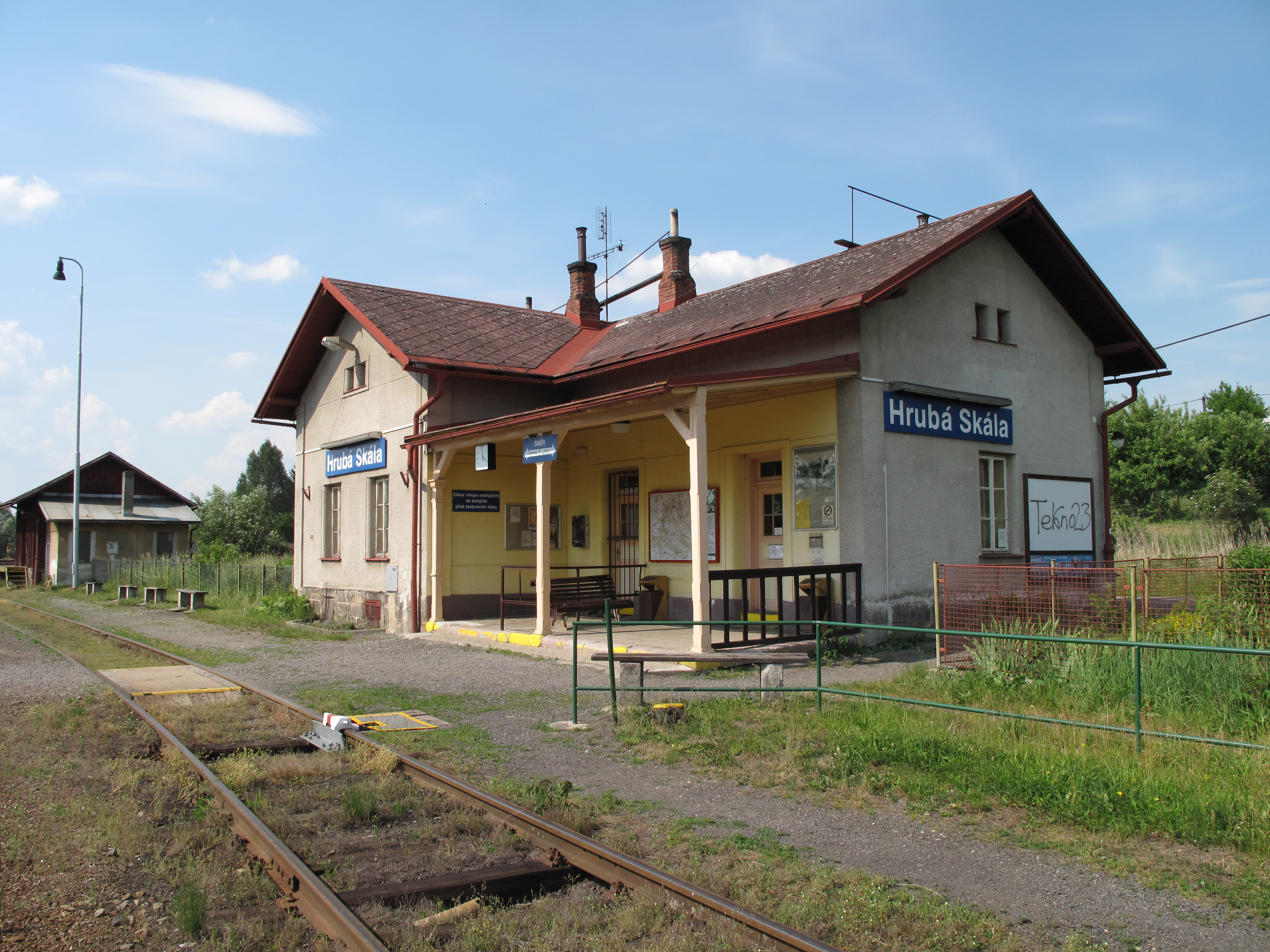 Hrubá Skála train station, Semily District, Czech Republic.